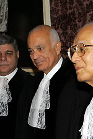 Nabil el-Araby at the UN International Court of Justice, The Hague, 2 November 2005.